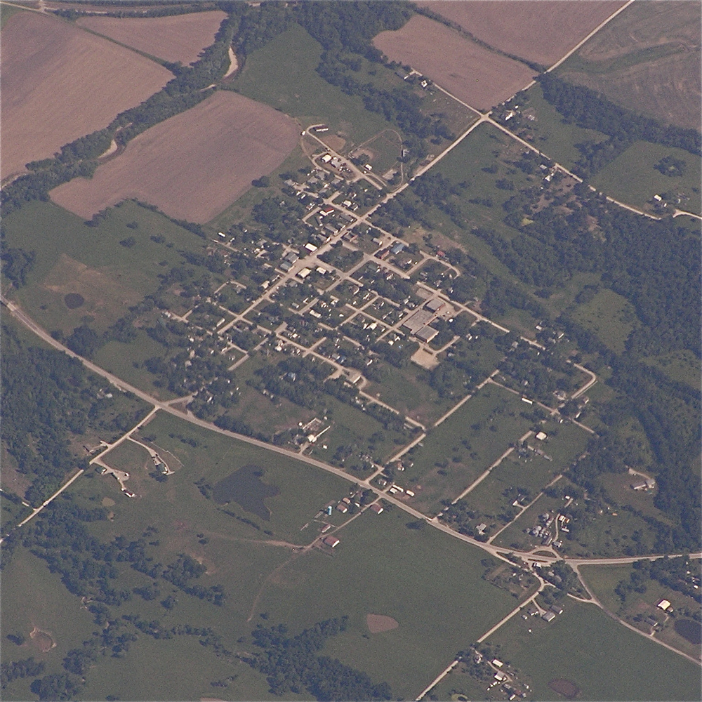 Galt, Missouri, seen from the air, May 28, 2012.